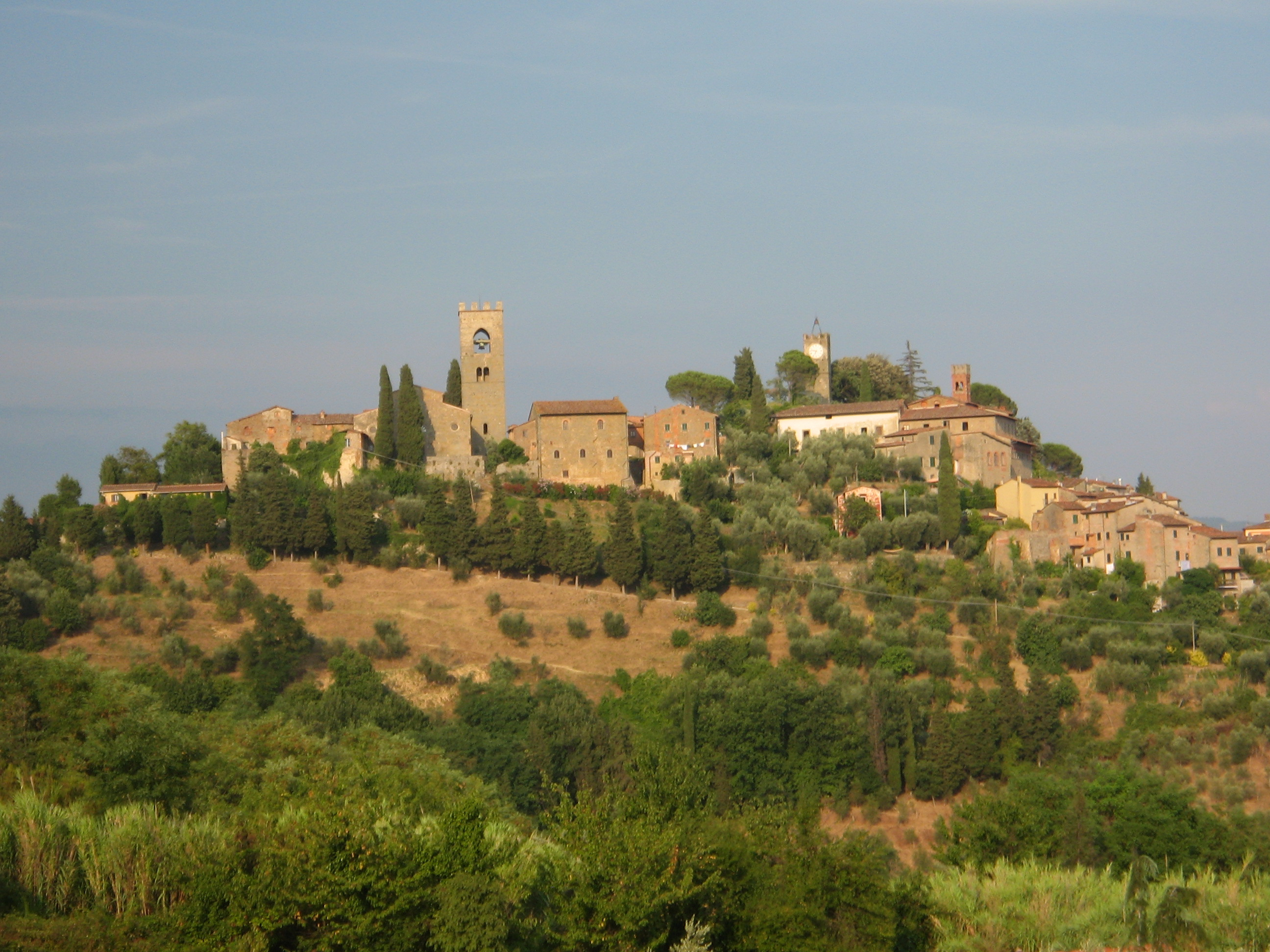 Buggiano Castello from Stignano